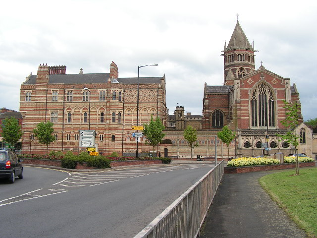 Rugby School. Where William Webb Ellis is alleged to have picked up the ball and run with it.